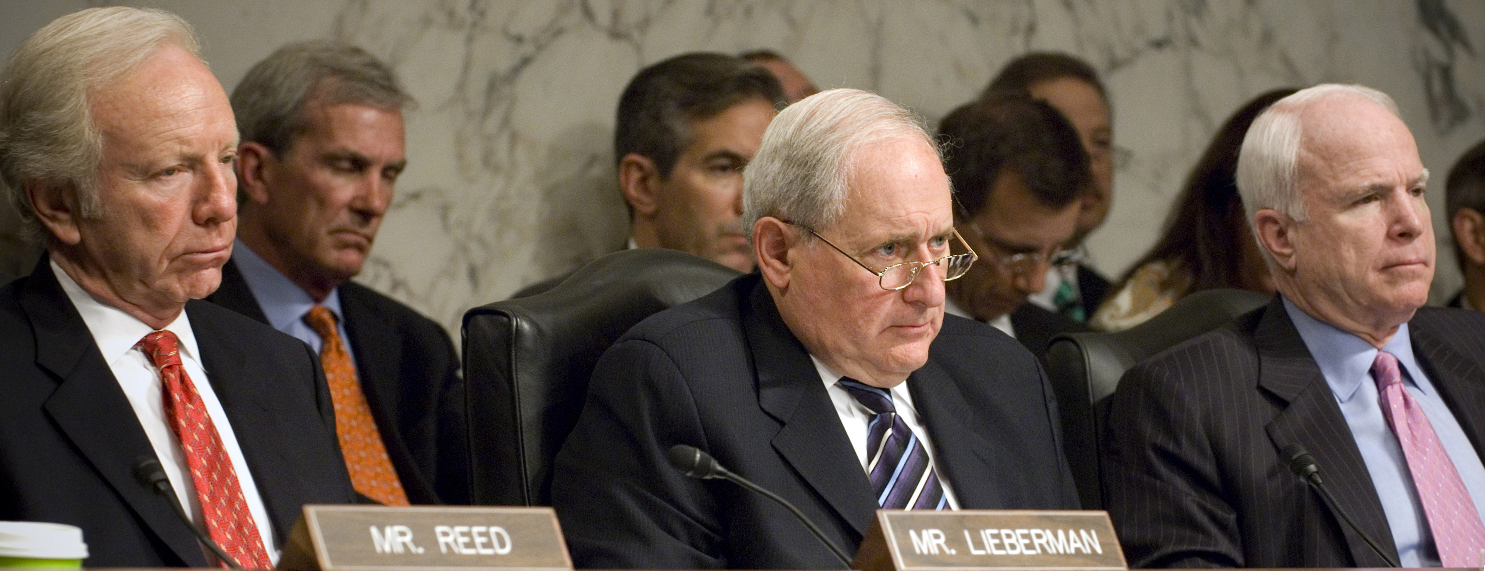 WASHINGTON (June 4, 2009) U.S. Senators Joe Lieberman, left, Carl Levin, chairman of the Senate Armed Services Committee, and John McCain listen to Secretary of the Navy (SECNAV) the Honorable Ray Mabus deliver his opening remarks for the fiscal year 2010 budget request. (U.S. Navy photo by Mass Communication Specialist 2nd Class Kevin S. O'Brien/Released)